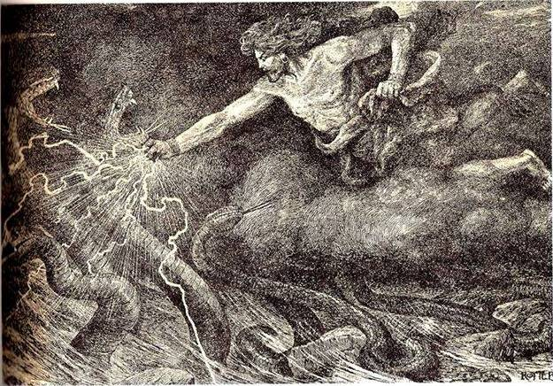 Vahagn the Dragonslayer engraving by Austrian artist J. Rotter.